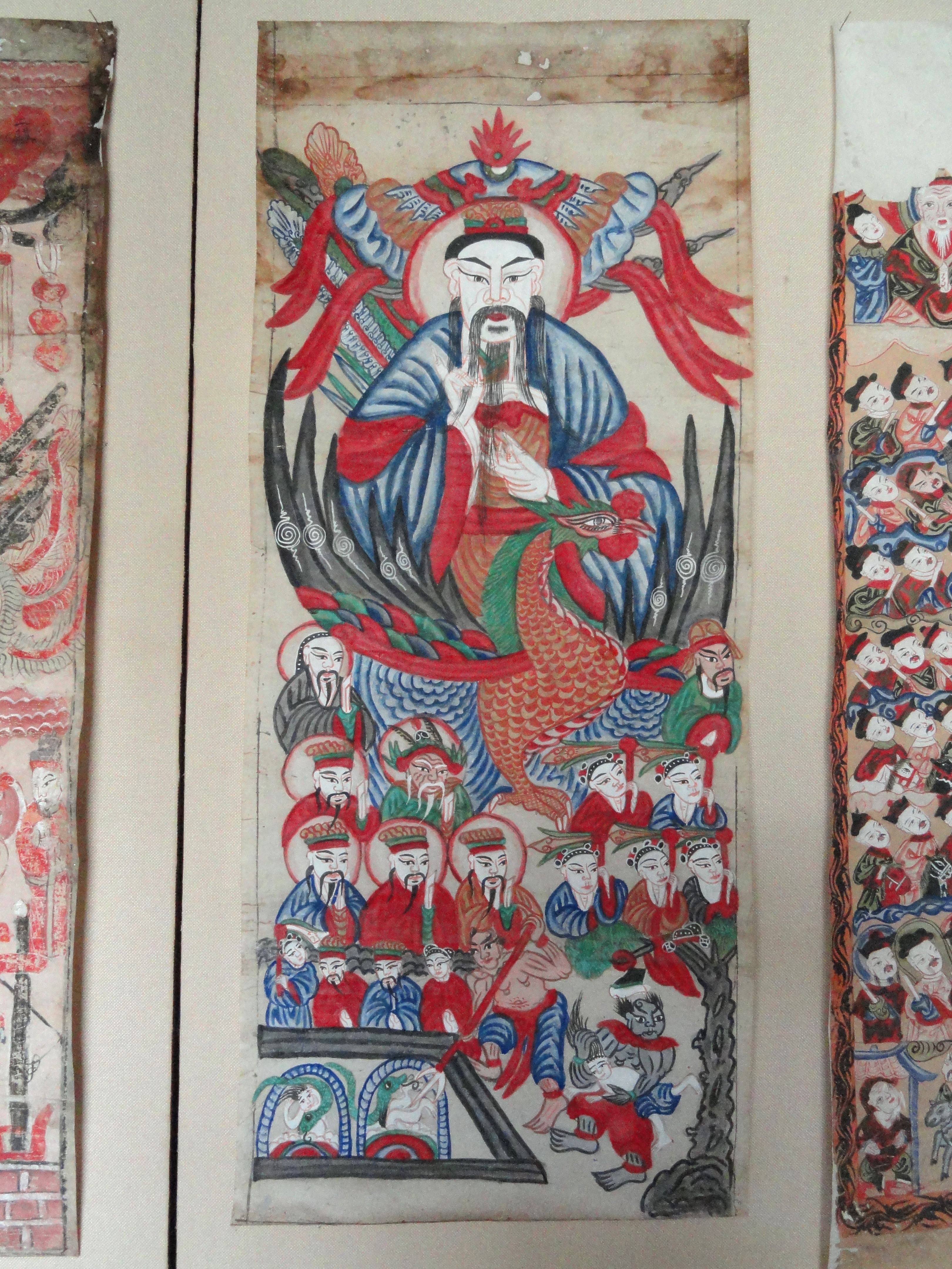 Yao painting of Taoist "shigong". Folk Arts in the Yunnan Nationalities Museum, Kunming, Yunnan, China.